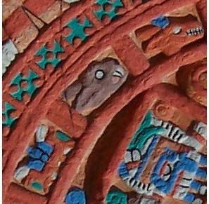 Aztec day icons Water, Rabbit, Deer from the array of 20 days in the Aztec sun stone